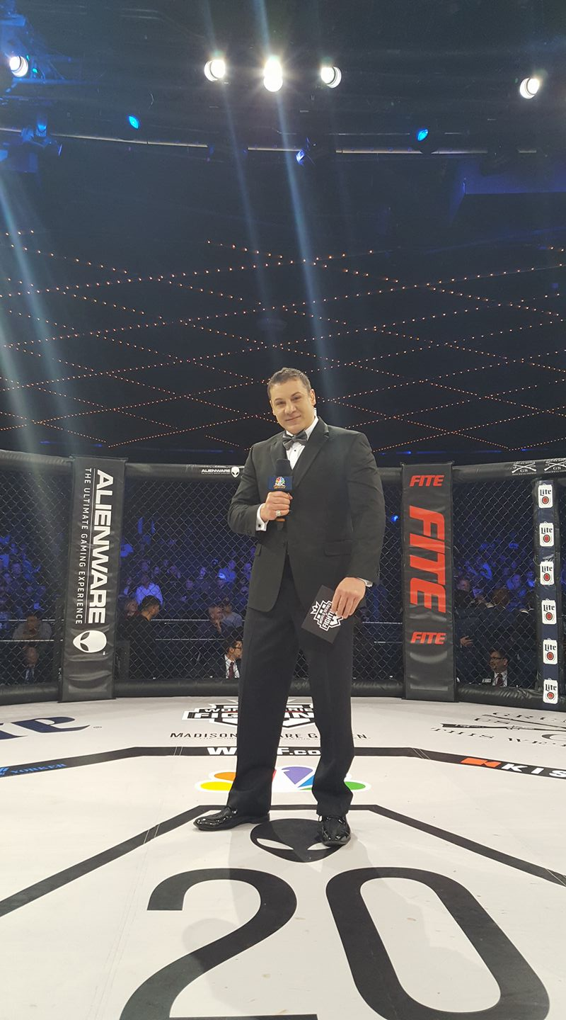 Jazz Securo at Madison Square Garden 12/31/16